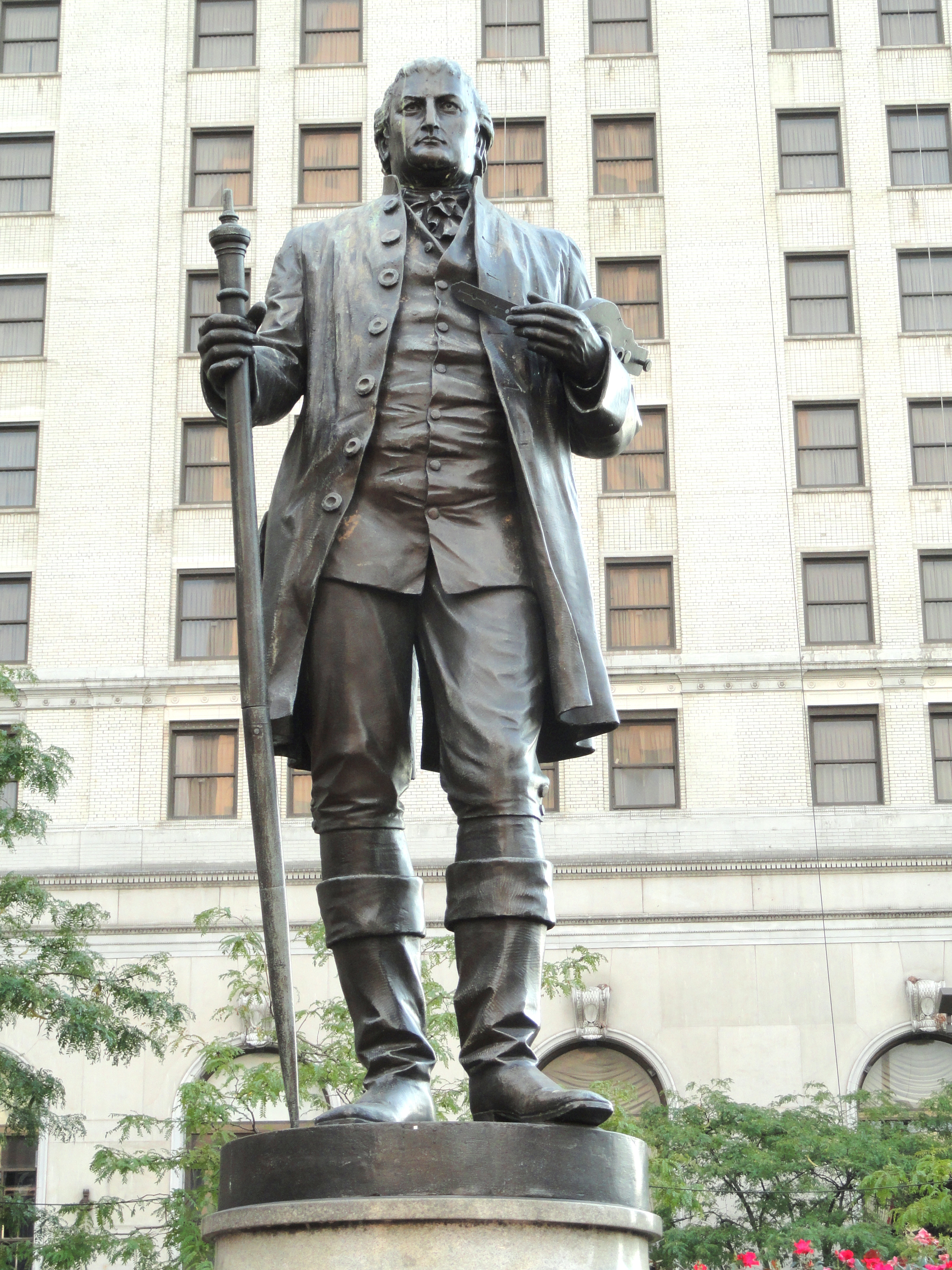 Gen. Moses Cleaveland by James G. C. Hamilton, Public Square, Cleveland, Ohio, USA. Dedicated in 1888. This artwork is in the public domain because the artist died more than 70 years ago.